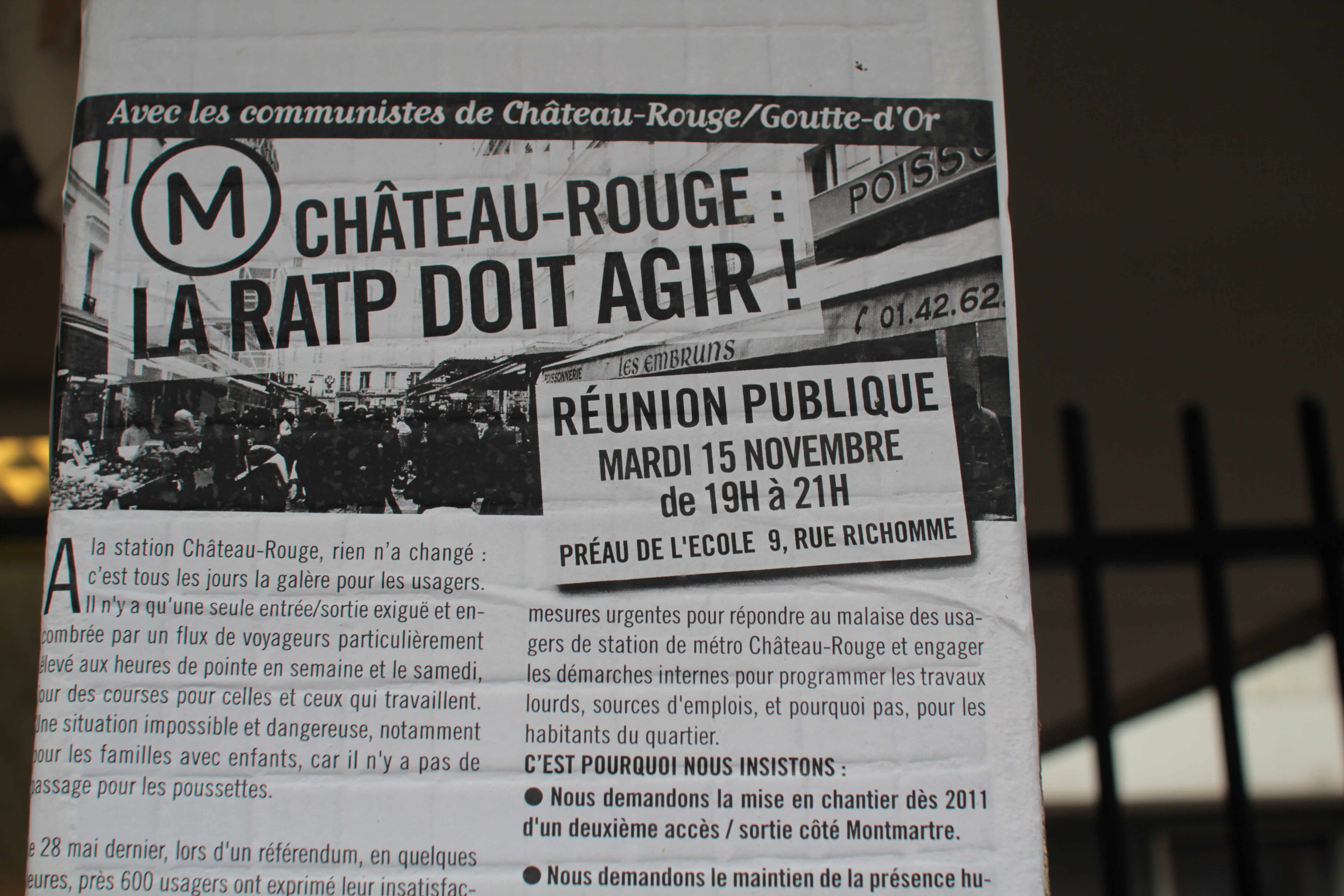 Poster calling for a meeting to get the RATP to open a second entrance to the Chateau Rouge Metrostation. Rue Leon, Paris, december 2011